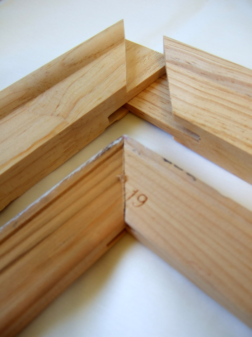 Heavy duty and light duty stretcher bar corners in two phases of assembly.